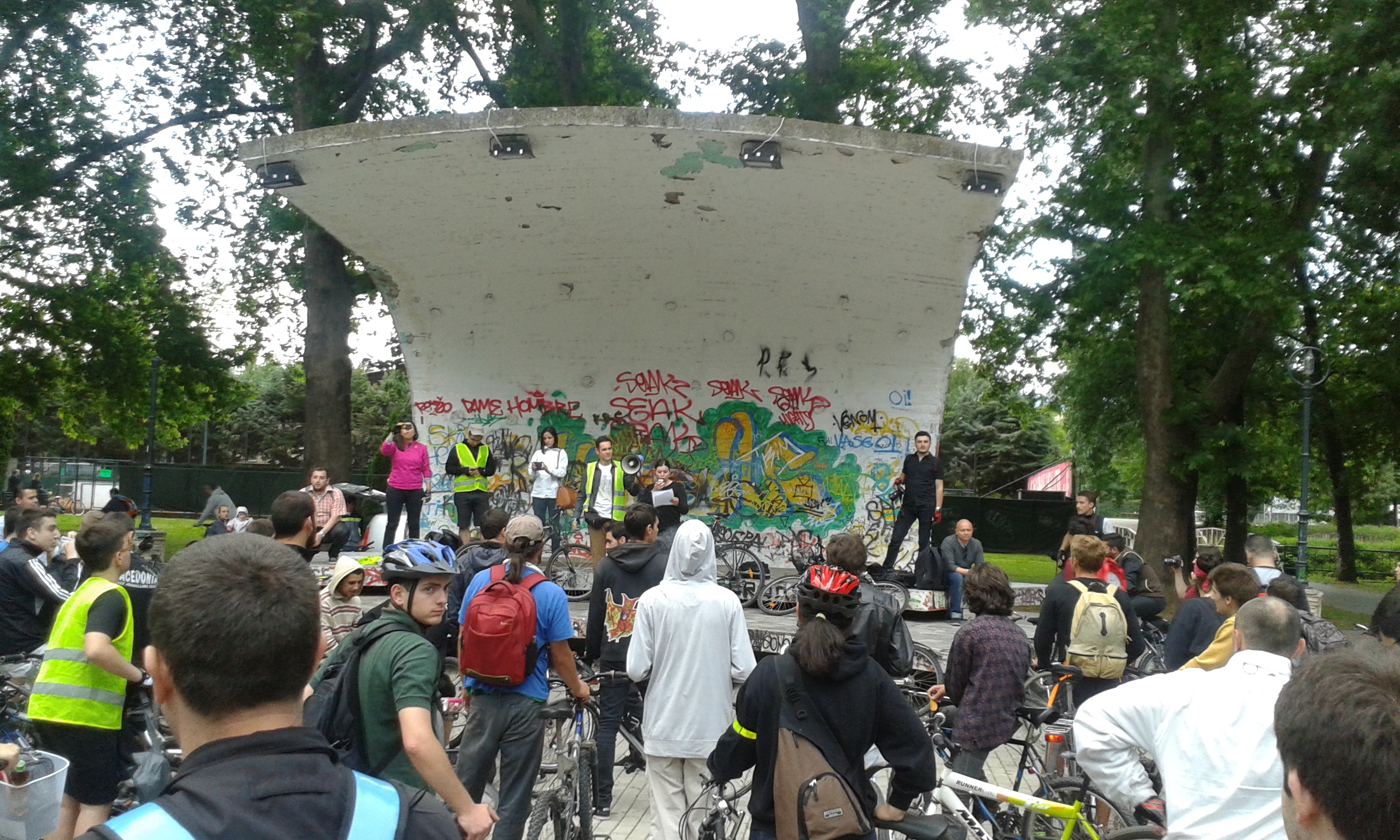 Speech about birthday of the Critical Mass in Skopje